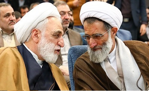 Representative of the Supreme Leader in Chaharmahal and Bakhtiari and Imam Jumu'ah of Shahr-e Kord